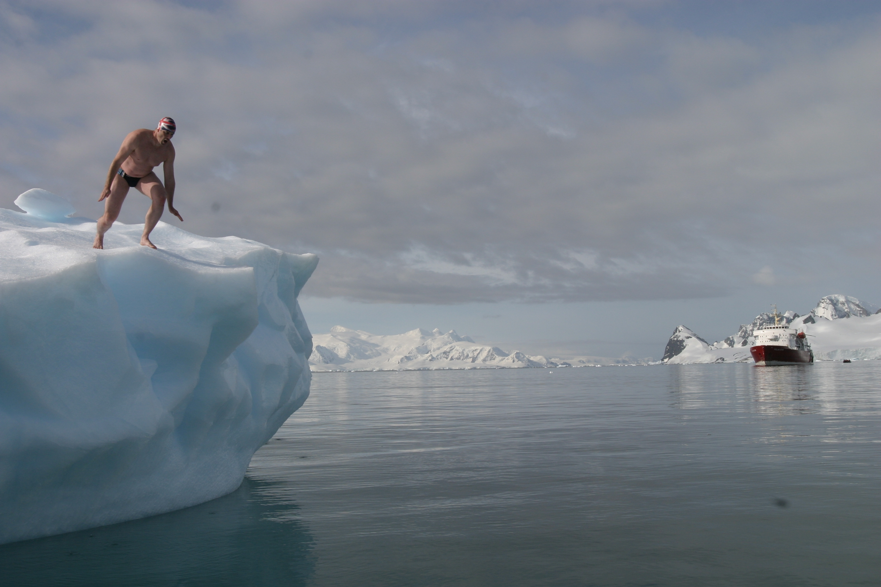 Lewis Pugh prepares to dive into polar waters